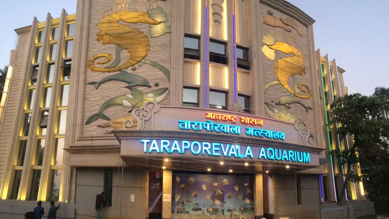 Newly renovated - Taraporewala Aquarium